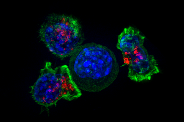 Superresolution image of a group of killer T cells (green and red) surrounding a cancer cell (blue, center). When a killer T cell makes contact with a target cell, the killer cell attaches and spreads over the dangerous target. The killer cell then uses special chemicals housed in vesicles (red) to deliver the killing blow. This event has thus been nicknamed “the kiss of death”. After the target cell is killed, the killer T cells move on to find the next victim.